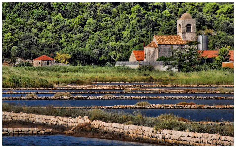 Ciudad Ston city en la peninsula Peljesac, Croacia, Croatia 25th of july 2009